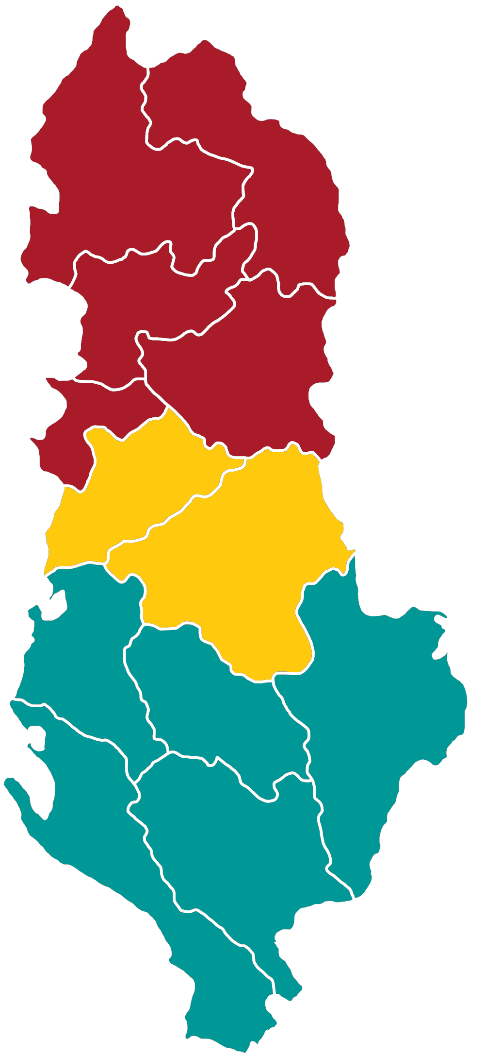 NUTS-2 of Albania: Regions (non-administrative) Red - North (AL01) Orange - Central (AL02) Turquoise - South (AL03) NUTS-3 of Albania: Counties